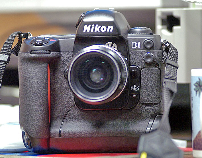 I am the author. This is a photo of a Nikon D1.